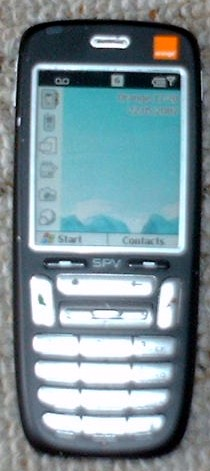 this is an orange spv C500. It is displaying the Windows Mobile 2003SE Home Screen. Category:High Tech Computer Corporation